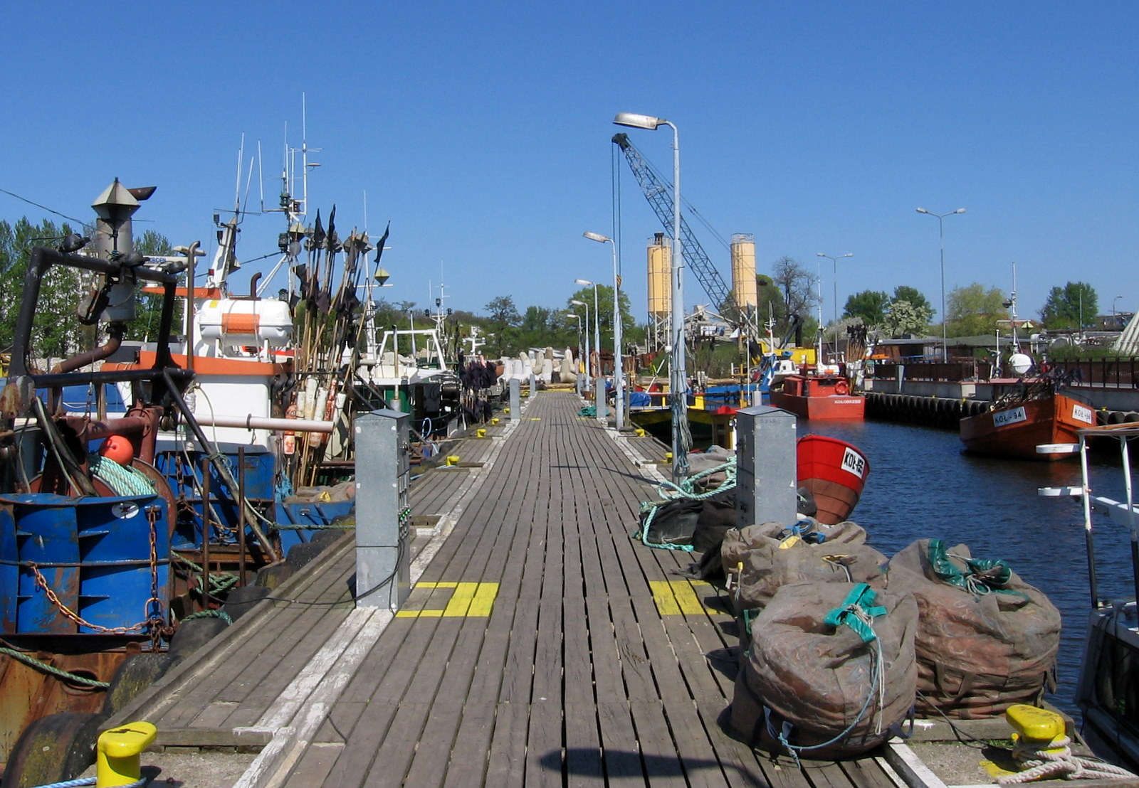 Fishing pier in the Port of Kołobrzeg, Poland